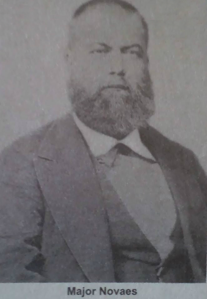 Major Manuel de Freitas Novaes, founder of Cruzeiro city, São Paulo State, Brazil.